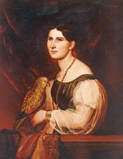 Portrait of Mary Anna Custis (Lee) with parrot